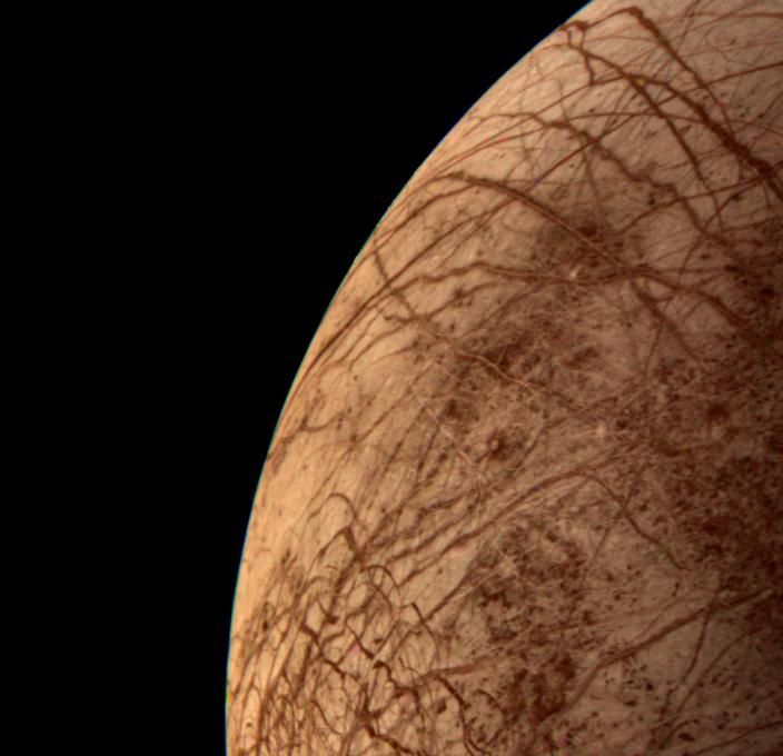 This color image of the Jovian moon Europa was acquired by Voyager 2 during its close encounter on Monday morning, July 9 1979. Europa, the size of our moon, is thought to have a crust of ice perhaps 100 kilometers thick which overlies the silicate crust. The complex array of streaks indicate that the crust has been fractured and filled by materials from the interior. The lack of relief, any visible mountains or craters, on its bright limb is consistent with a thick ice crust. In contrast to its icy neighbors, Ganymede and Callisto, Europa has very few impact craters. One possible candidate is the small feature near the center of this image with radiating rays and a bright circular interior. The relative absence of features and low topography suggests the crust is young and warm a few kilometers below the surface. The tidal heating process suggested for Io also may be heating Europa's interior at a lower rate.